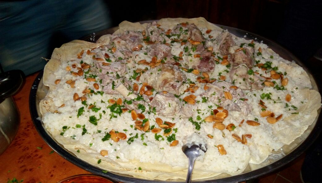 Jordinian Mansaf cooked in Egypt